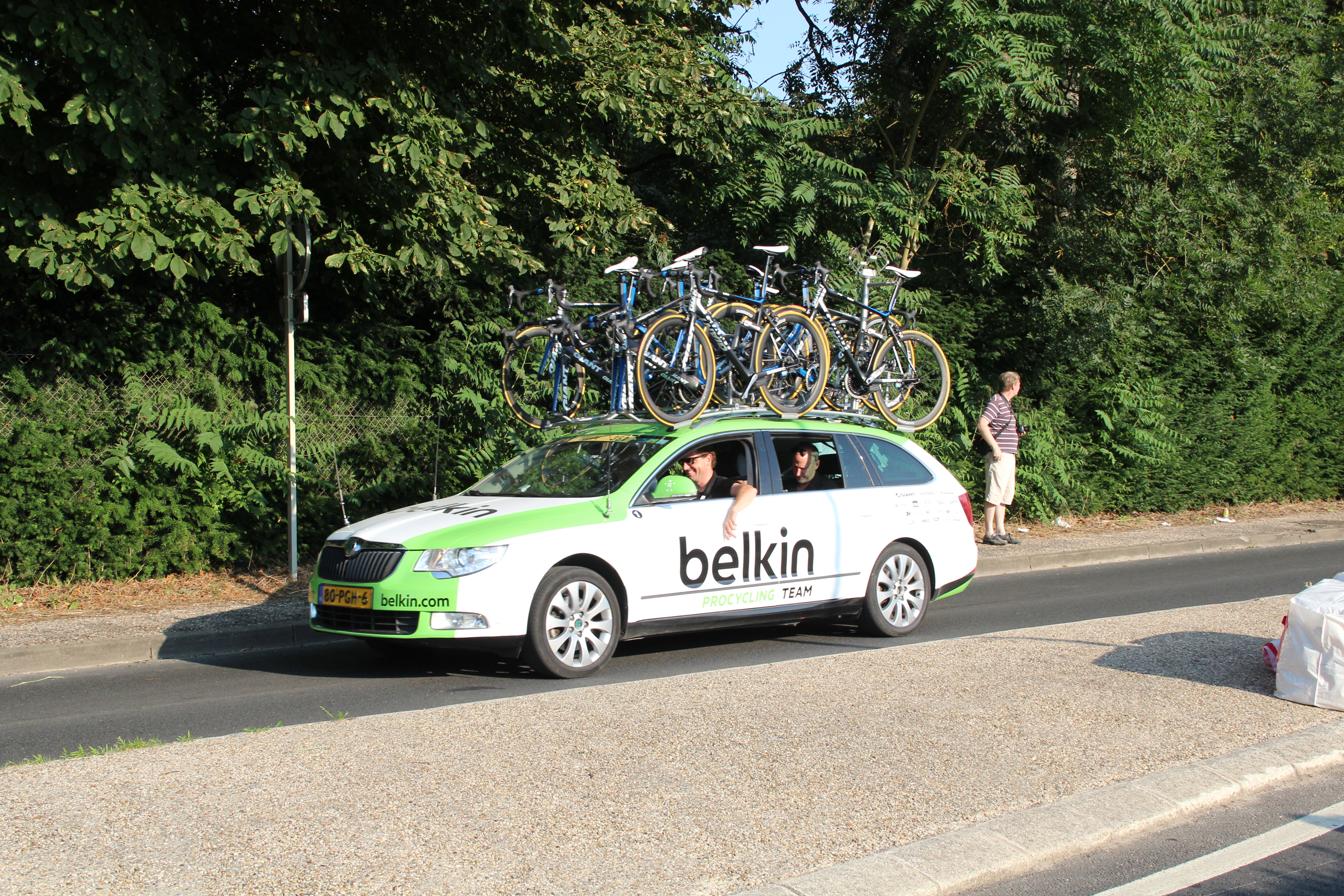 Tour de France 2013 sport event in Saint Rémy lès Chevreuse, France